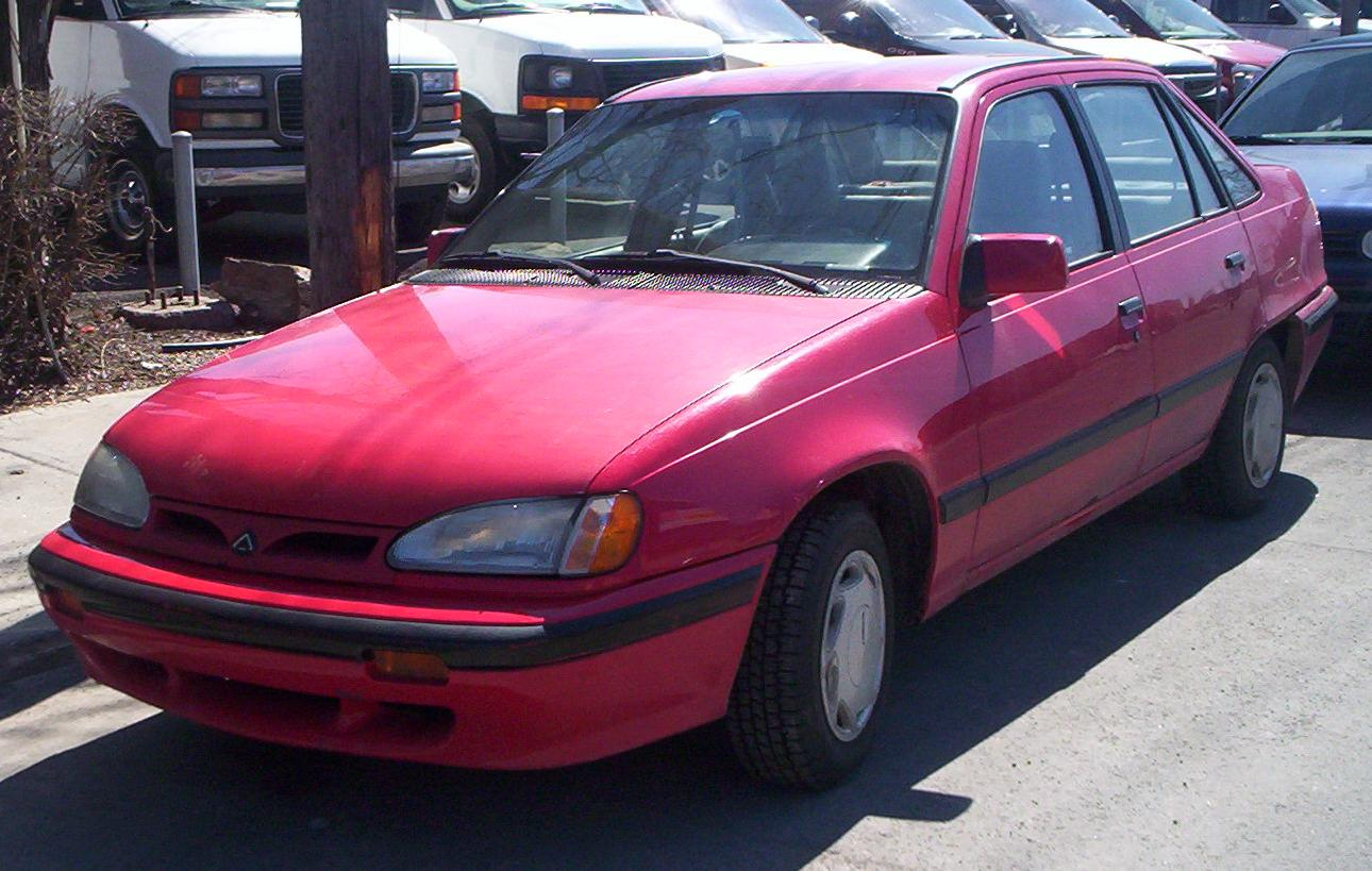 1993 Asuna SE photographed in Montreal, Quebec, Canada.